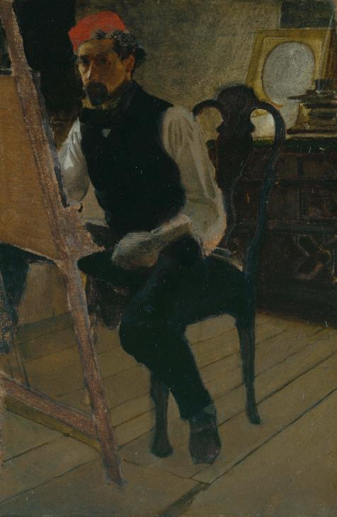 Self-Portrait Charles Samuel Keene